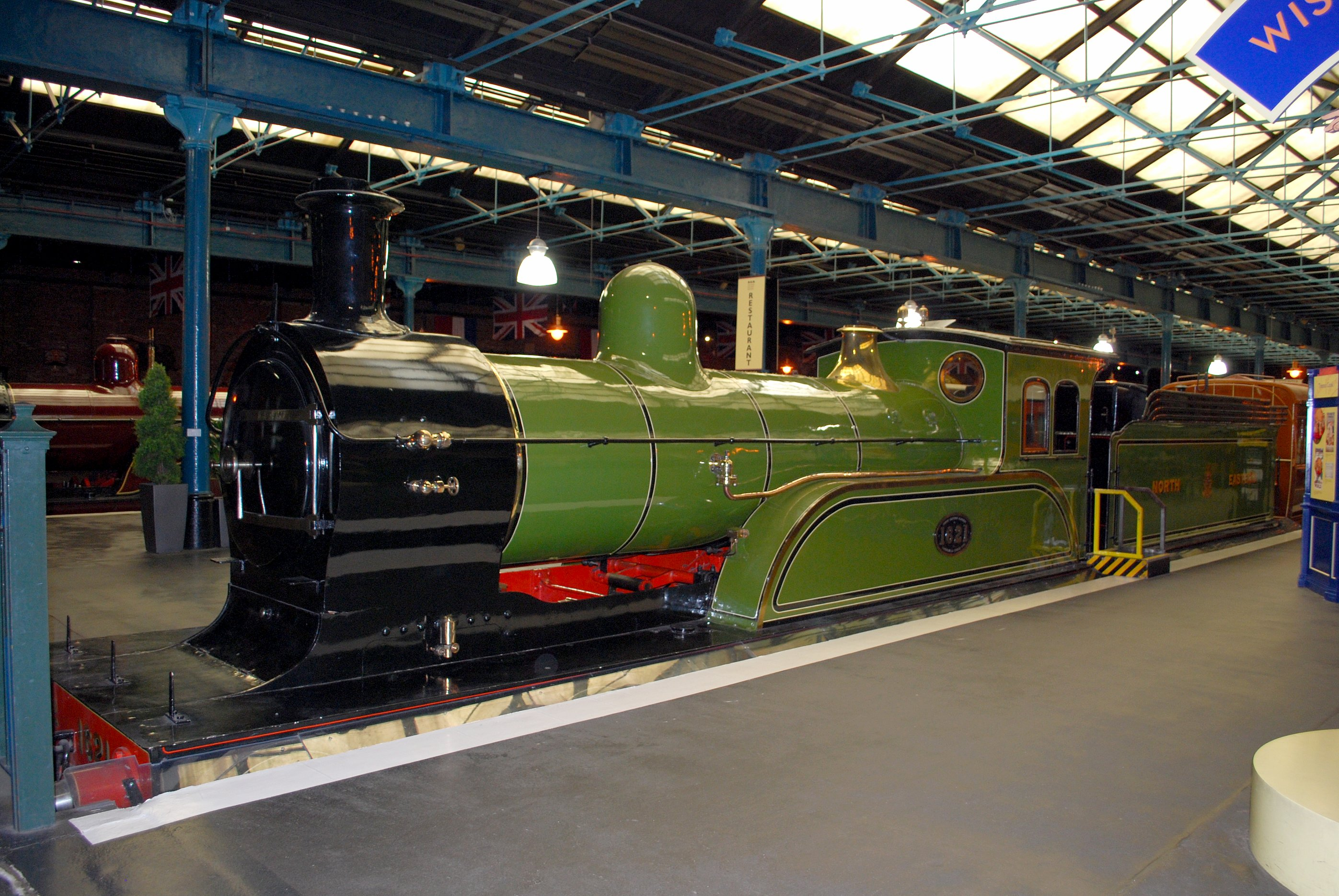 NER Worsdell Class "M1" (LNER Class "D17") 4-4-0 No.1621 (LNER No.1621; BR No.62108) at the National Railway Museum, York, 09/10.